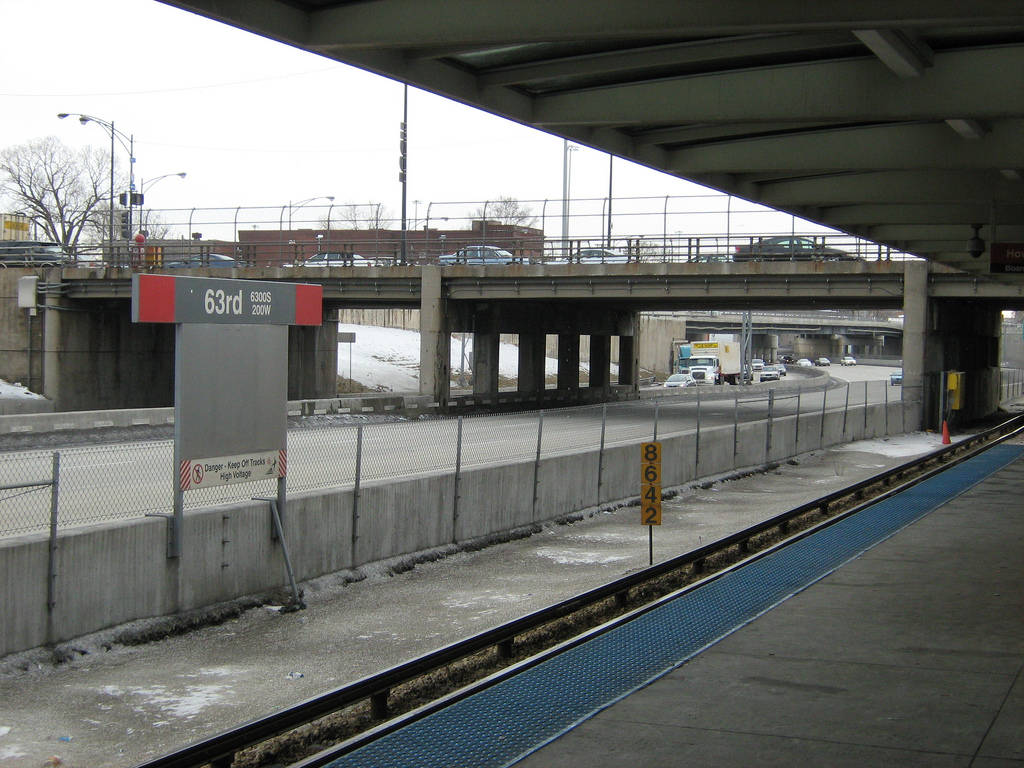 63rd CTA Red Line